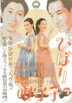 1951 movie poster for 1951 Japanese movie (ひばりの子守唄 Hibari no komoriuta, lit. "Hibari's Lullaby".